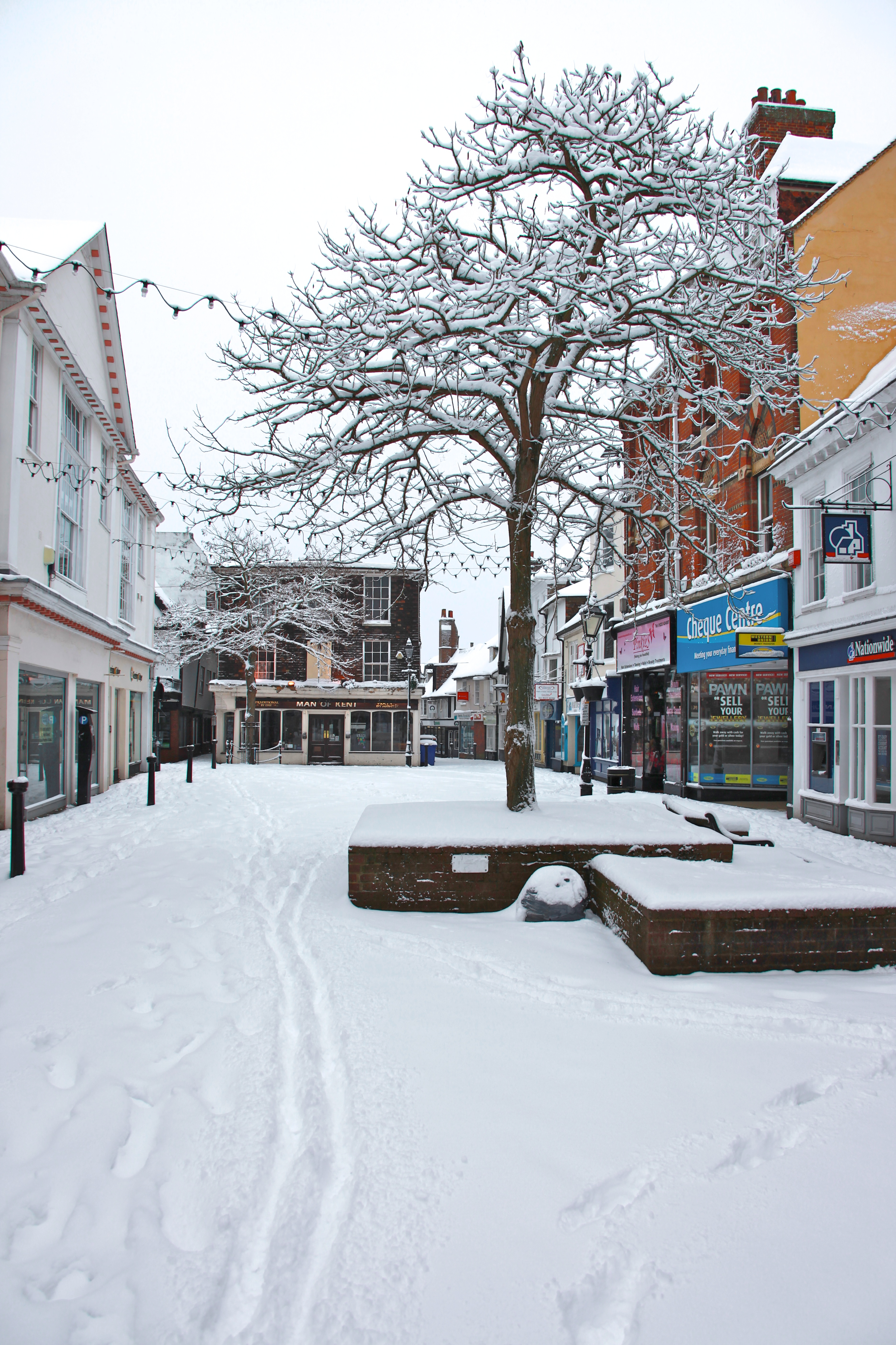 Snow on the High Street of Ashford, Kent (February 2012)